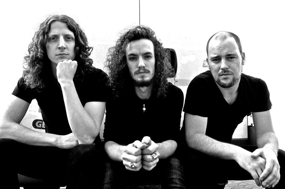 English rock band RavenEye